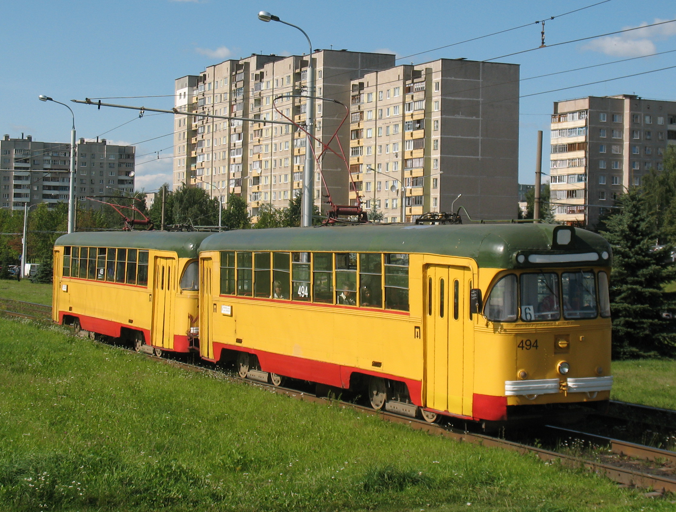 Last years for RVZ trains in Minsk